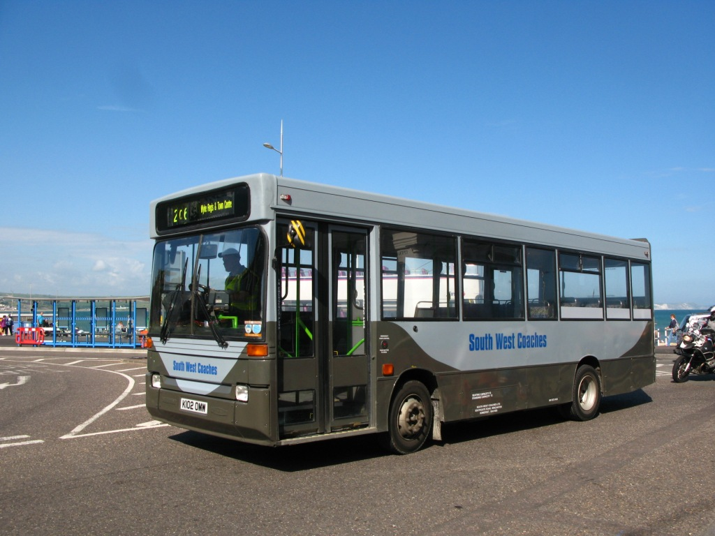 A former Thamesdown Dennis Dart bus (registration K102OMW) operates a local service in Weymouth, Dorset, for South West Coaches.